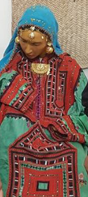 . موزه سرباز. زن بلوچ با زیورالات سنتی